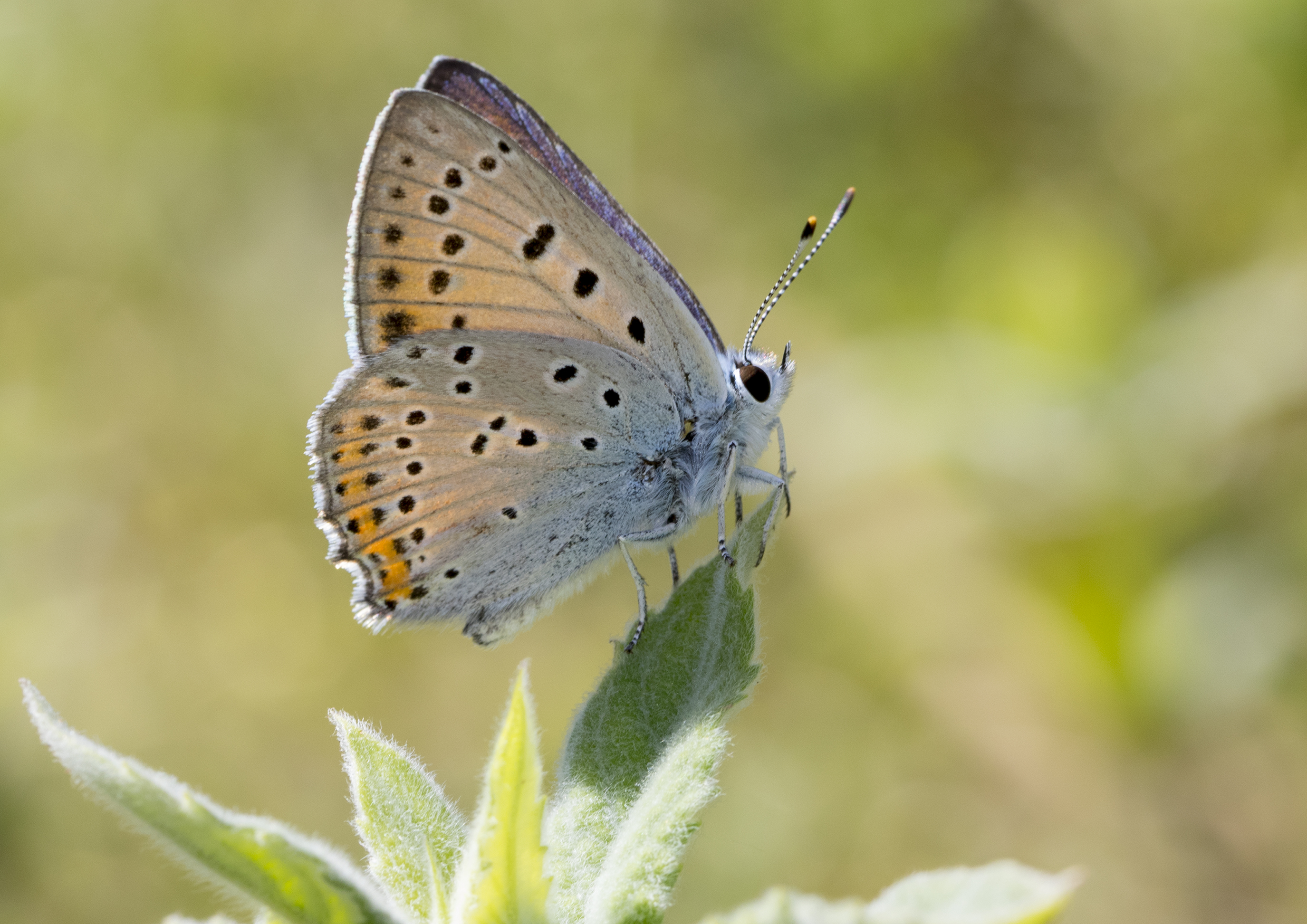 Purple-shot copper (Lycaena alciphron). Obruk Waterfall, Saimbeyli - Adana, Turkey.